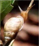 Photo of Samoana attenuata from Mount Tohiea Belvedere on Moorea.